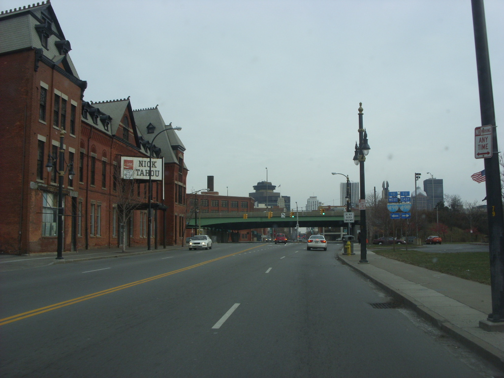 The last few yards of New York State Route 33 (heading eastbound) in Rochester. NY 33 ends at the traffic light in the background, where it meets New York State Route 31. To the left is the downtown location of Nick Tahou Hots.